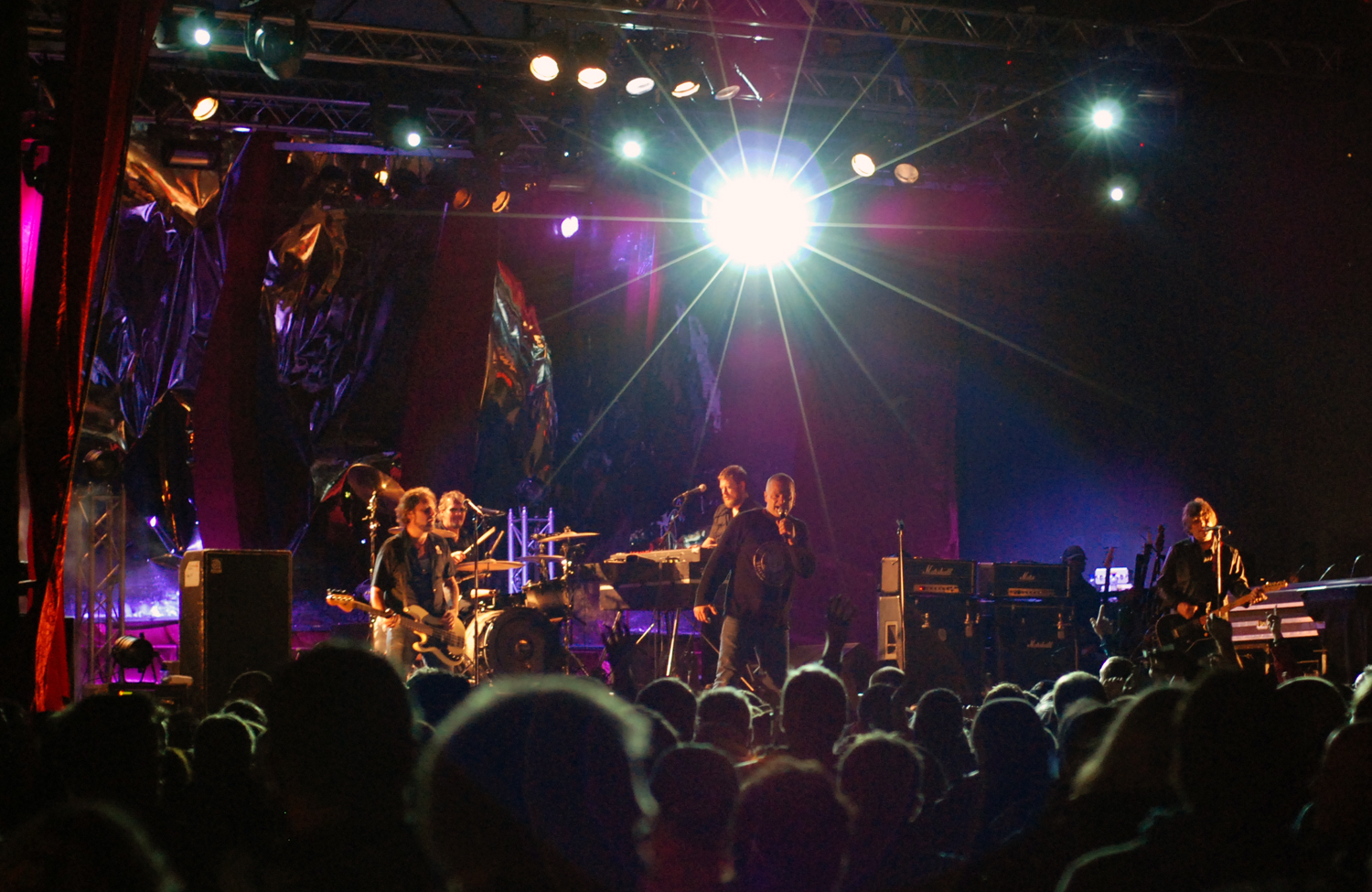 DumDum Boys live at Strandgateparken in Hamar, Hedmark, Norway.